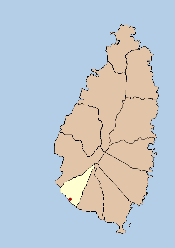 this is a political map showing the quarter of Choiseul on the island nation of Santa Lucia. I created it myself by using the GIMP to trace a public domain map that i found at the Perry-Castañeda Library Map Collection.